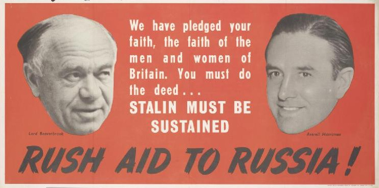 Rush Aid to Russia whole: the two images are positioned in the right third and in the left third. The title and text are separate and placed in the lower quarter, in black, and in the centre and upper centre, in white. All set against a red background. image: the left image is a photographic portrait of Lord Beaverbrook. The right image is a photographic portrait of William Averell Harriman. text: We have pledged your faith, the faith of the men and women of Britain. You must do the deed ... STALIN MUST BE SUSTAINED Lord Beaverbrook Averell Harriman RUSH AID TO RUSSIA! PRINTED FOR H.M. STATIONERY OFFICE BY J. WEINER LTD., LONDON. W.C.1. 51-2148